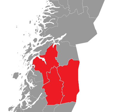 Stor-Vefsn, i.e. the municipalities of Vefsn, Grane, and Hattfjelldal.